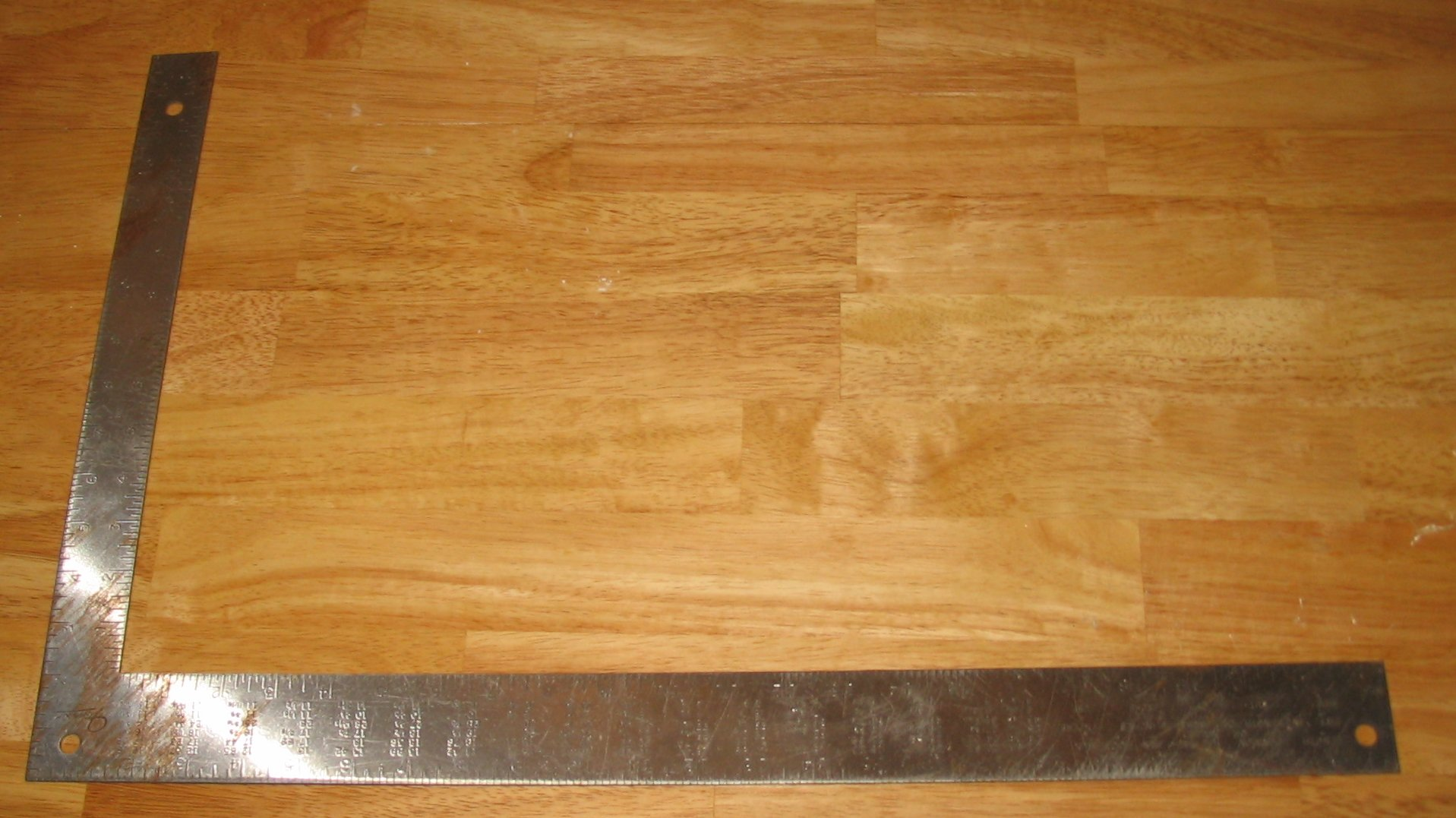 Framing square. Photo taken by Jim Thomas, 16 Mar, 2006.